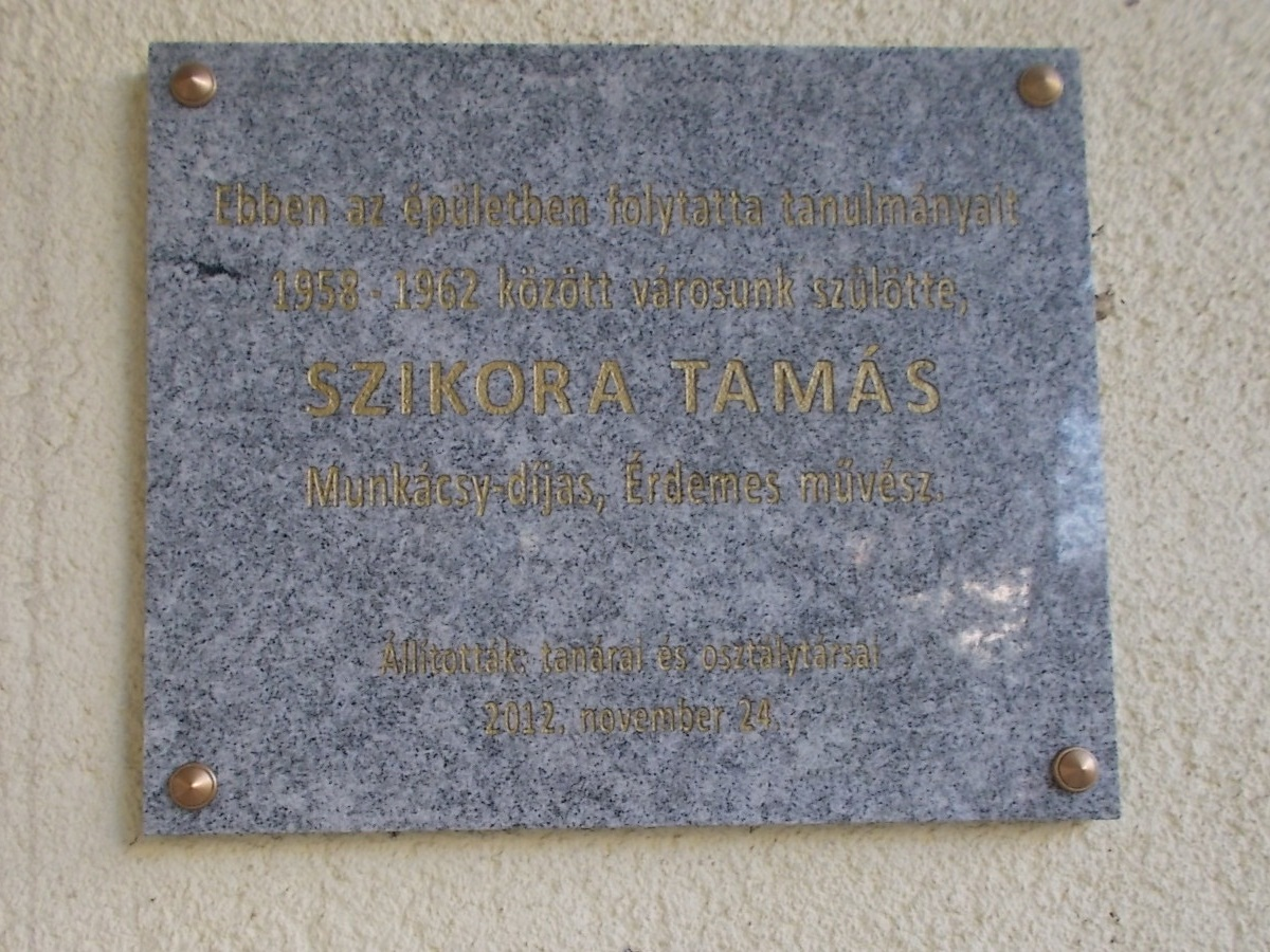 Vásárhelyi Pál Construction and Environmental Protection - Water management Secondary School. - 16 Vasvári Pál Street, Nyíregyháza, Szabolcs-Szatmár-Bereg County, Hungary.